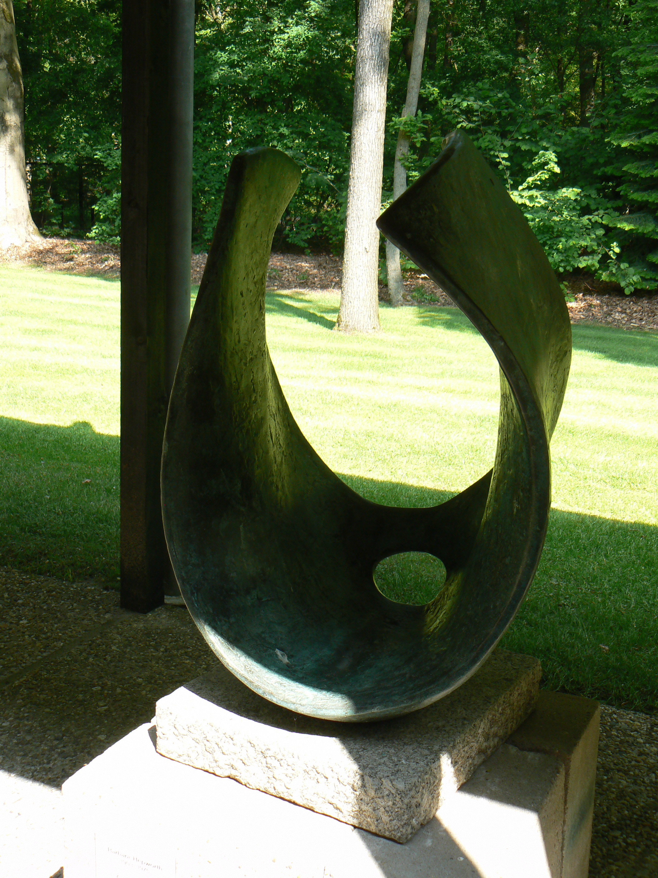 Sculpture Curved form (Trevalgan) (1956) by Barbara Hepworth in KMM Sculpturepark/The Netherlands